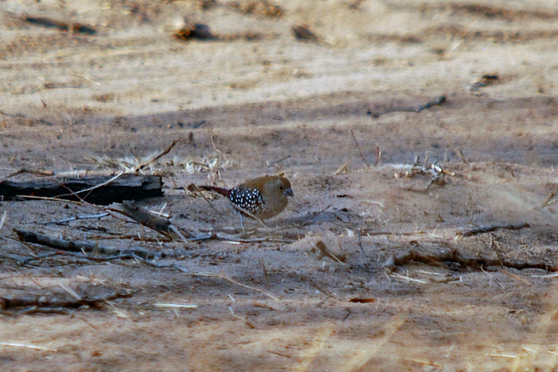 Pink-throated Twinspot (Hypargos margaritatus) (image name is wrong) on the ground, South Africa.